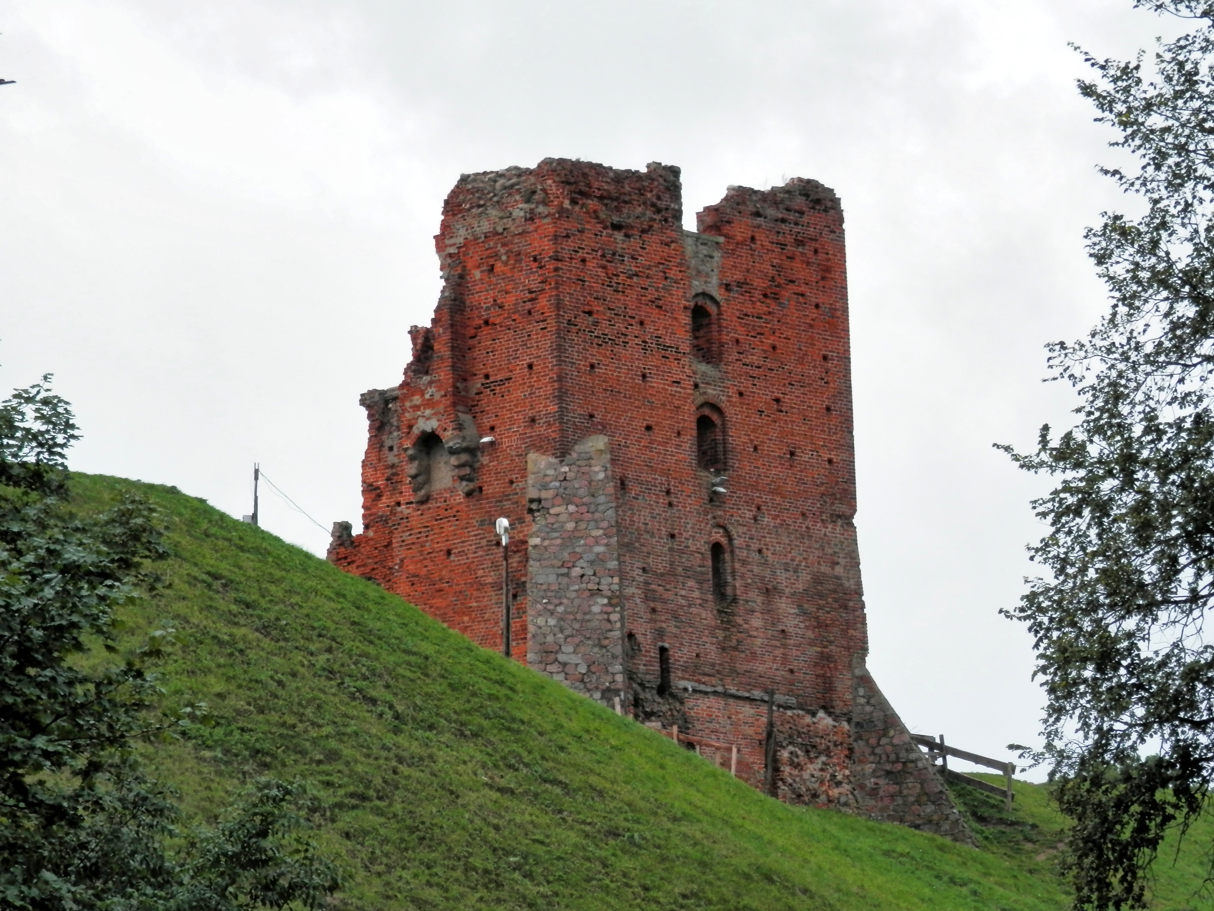 Ruins of the former castle in Navahrudak